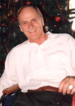 Rev. Mel White in front of Christmas tree, Xmas Party 1995